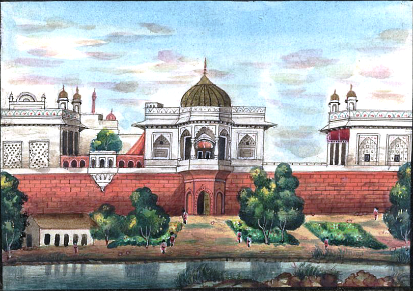 The following are two views of the Palace at Dehly from the River or East Side. The first includes the whole length of line from the Shah Boorj or Royal Tower on the right to the Ussud Boorj on the left. Ussud literally signifies a lion but as tradition does not in any way connect this animal with the building in question, the latter may be properly denominated the Tower of Strength. In the second are shown a portion of the Dewan e Khafs or Hall of Audience on the right. The Summun Boorj or Octagon Tower in the centre, a very favorite apartment of the present King and in which all interviews with the agent of a strictly Private nature are held. On the left, the female apartments. [East face of the palace of the Red Fort Delhi.] Inscribed below with the names of the buildings: shah burj; moti mahal; asad burj; and naqsh-i rukar-i qil’a-i Dar al-Khalafa-i Shajahanabad az-taraf-i. ‘amal-i Mazhar ‘Ali Khan. [Closer view of the Musamman Burj. The Musamman Burj is part of the Khas Mahal, the private chambers of the emperor in the Palace of the Red Fort. Musamman Burj is a semi-octagonal tower, with marble screens on four sides and a jharokha in the centre, where the emperor appeared every morning before his subjects. The balcony projecting from the centre, was constructed by Akbar II (r.1806-37) in 1808-09, according to an inscription under the arches.] From 'Reminiscences of Imperial Delhi’, an album consisting of 89 folios containing approximately 130 paintings of views of the Mughal and pre-Mughal monuments of Delhi, as well as other contemporary material, with an accompanying manuscript text written by Sir Thomas Theophilus Metcalfe (1795-1853), the Governor-General’s Agent at the imperial court. Acquired with the assistance of the Heritage Lottery Fund and of the National Art-Collections Fund.